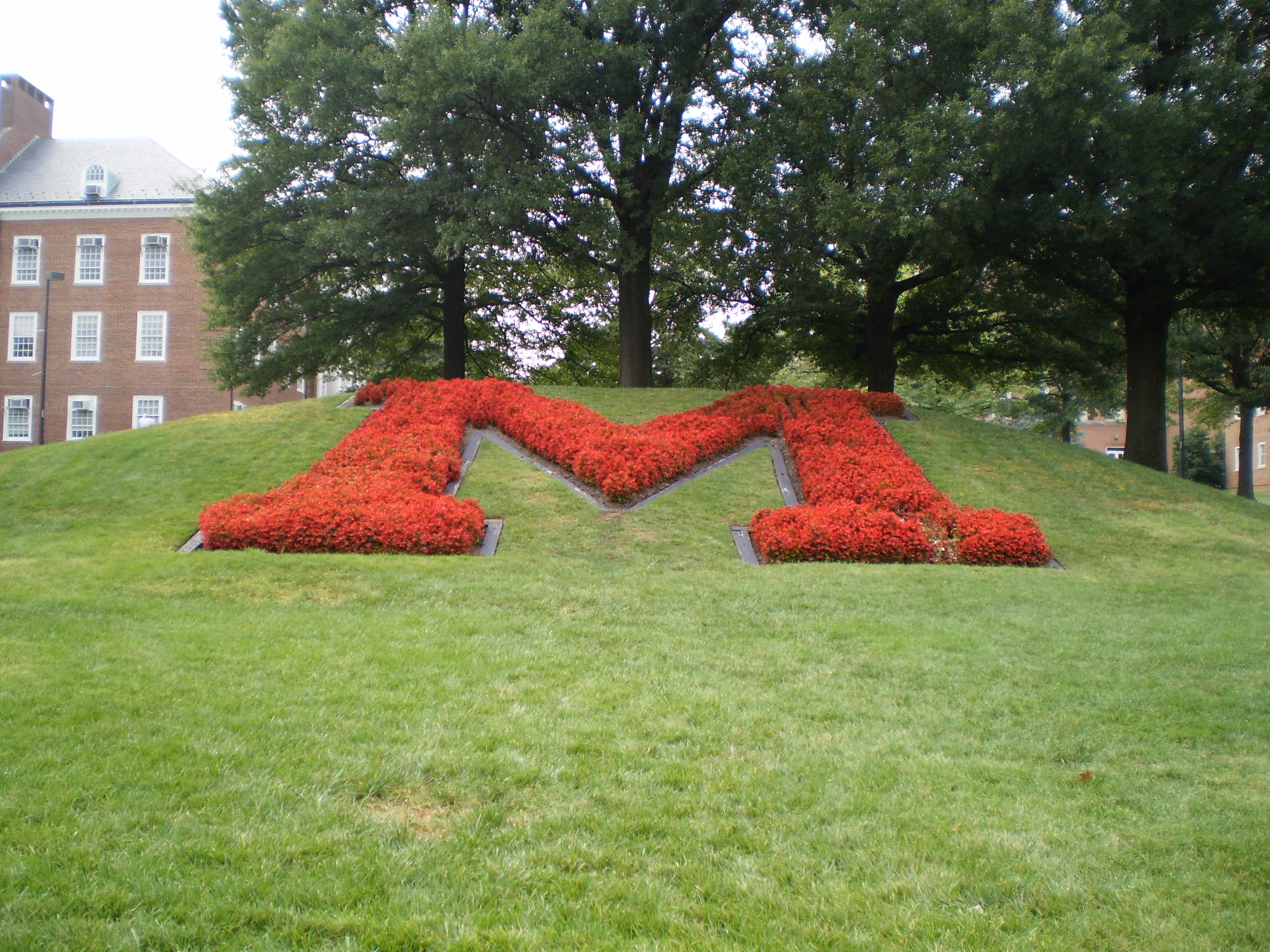 The floral "M" traffic circle on the campus of the University of Maryland, College Park.